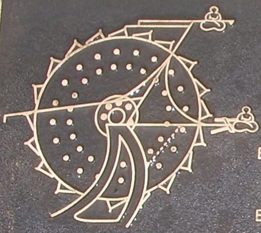 Hornsby water clock: detail of plaque showing diagram showing general layout of Chinese water wheel clock.